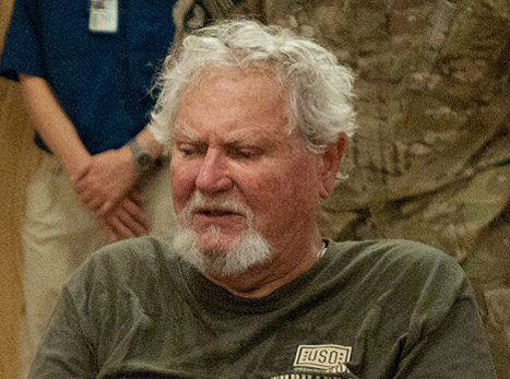 Clive Cussler, an American writer (2011)